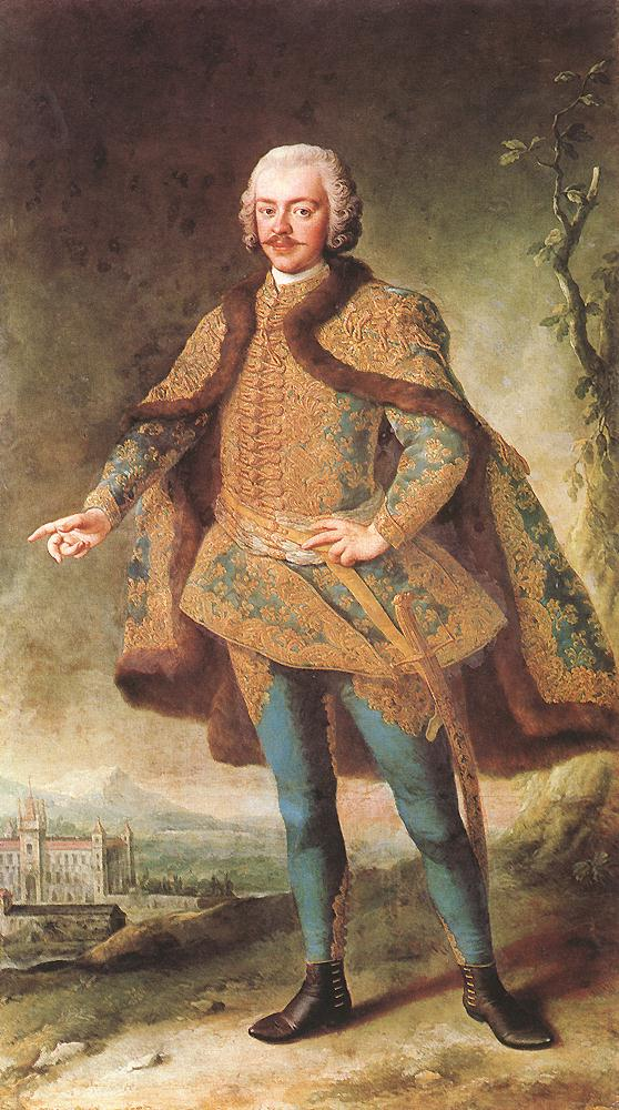 Count Dénes Bánffy de Losoncz (18th century), Hungarian nobleman, comes of the County of Kolozs.